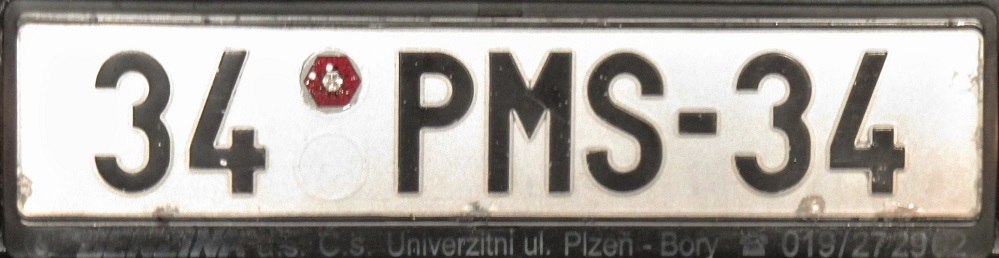 Czechoslovakia trailer plate 1960-2001